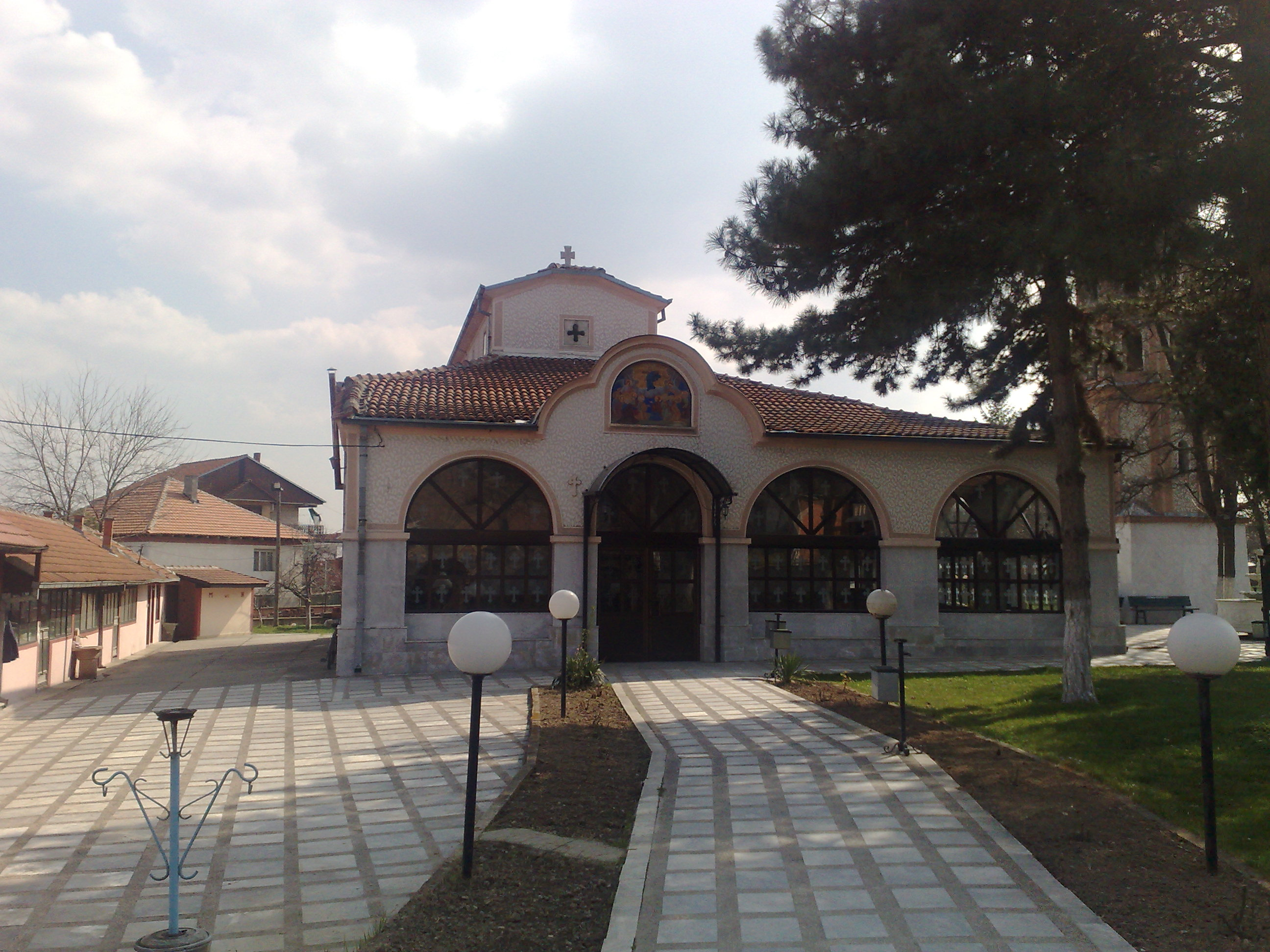 The church of the Holly Salvation in Drachevo, Macedonia